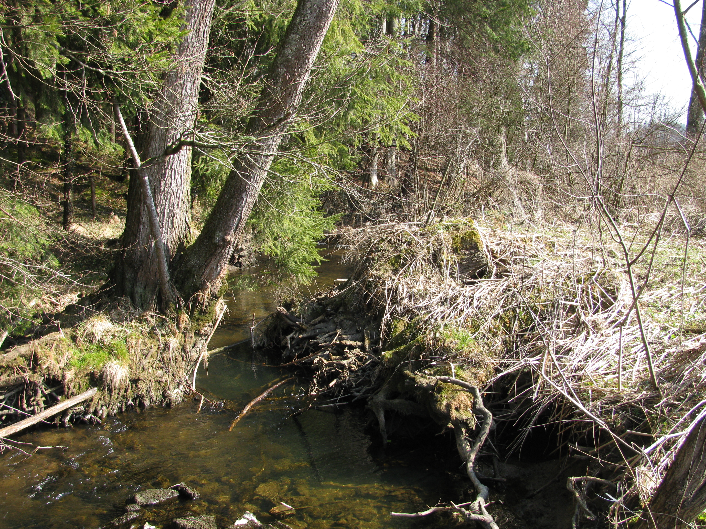 Germany - Bavaria - Lindau (district) - Wasserburg am Bodensee - Hengnau: biotope "Feuchtgebietskomplex 'Wiesenreute' südöstl. Kümmertsweiler" (pa-no. 184234353024)